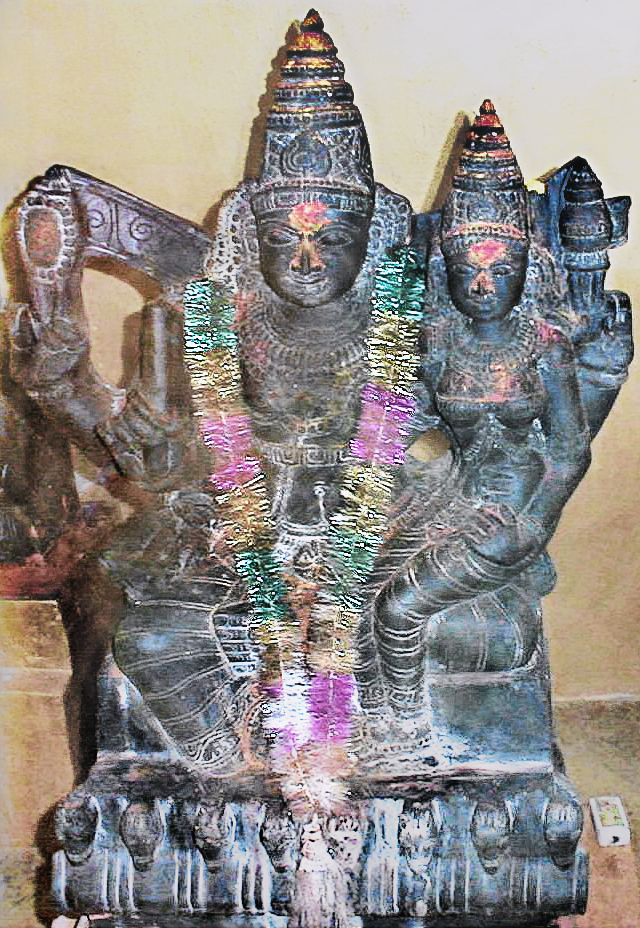 Surendrapuri Temple's Navagraha Temples, Budha with consort Ila